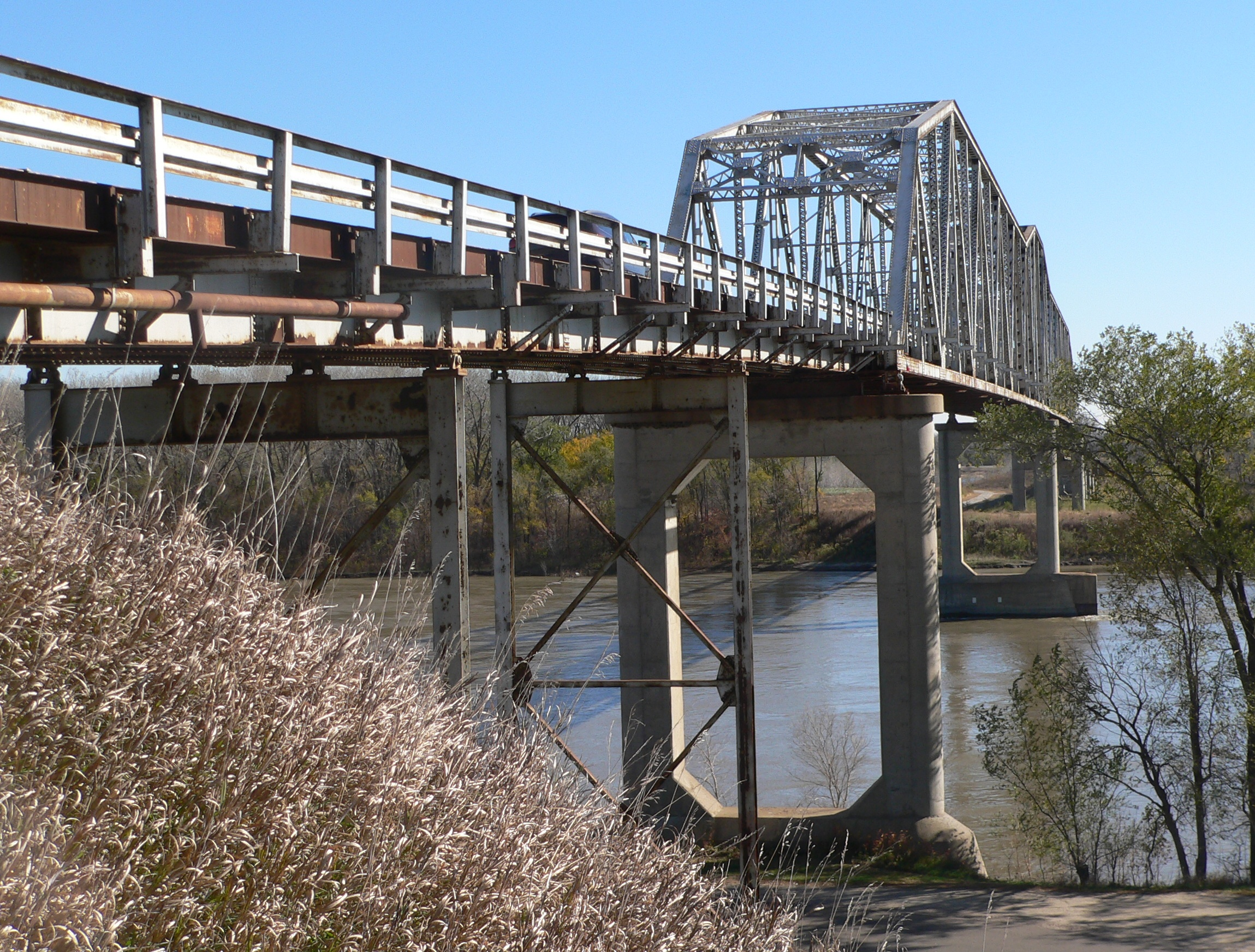 Bridge crossing the Missouri River between Decatur, Nebraska and Monona County, Iowa. The road carried by the bridge is Nebraska Highway 51/Iowa Highway 175. The photograph was taken from the Nebraska (west) side; downstream is right.